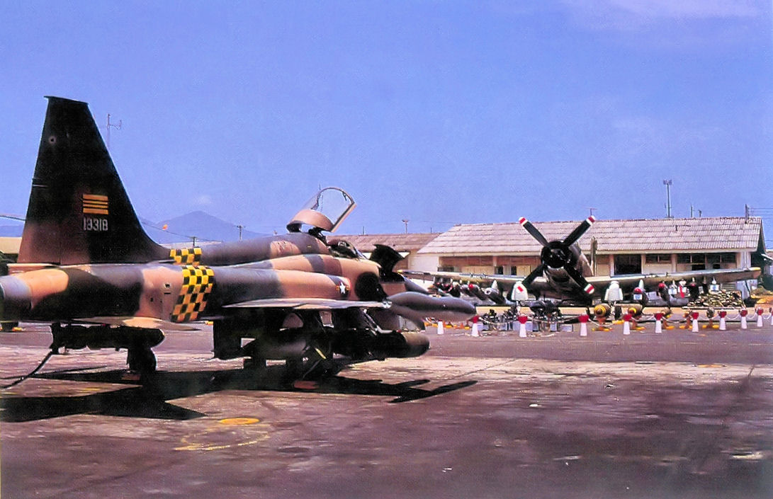 A VNAF Northrop F-5C Freedom Fighter and a Douglas A-1H/J Skyraider at Da Nang, Vietnam, in 1973. The F-5C (USAF s/n 64-13318) is from the VNAF 538th Fighter Squadron. This aircraft was originally built as an F-5A-20 and was part of the USAF "Skoshi Tiger" F-5 evaluation in Vietnam in 1967.